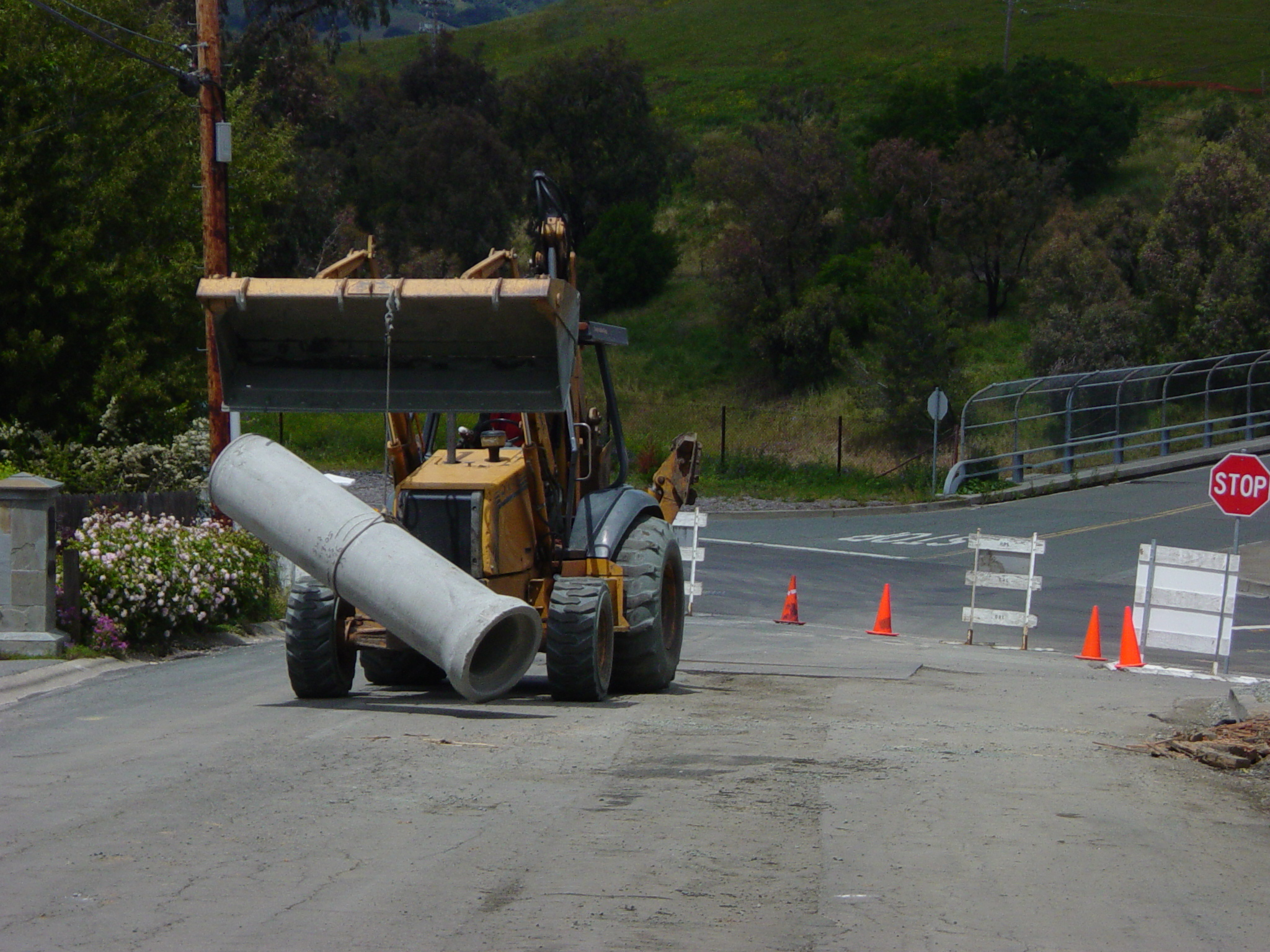 The driver is moving a concrete pipe sections attached to a Case excavator-loader's bucket to the excavated ditch